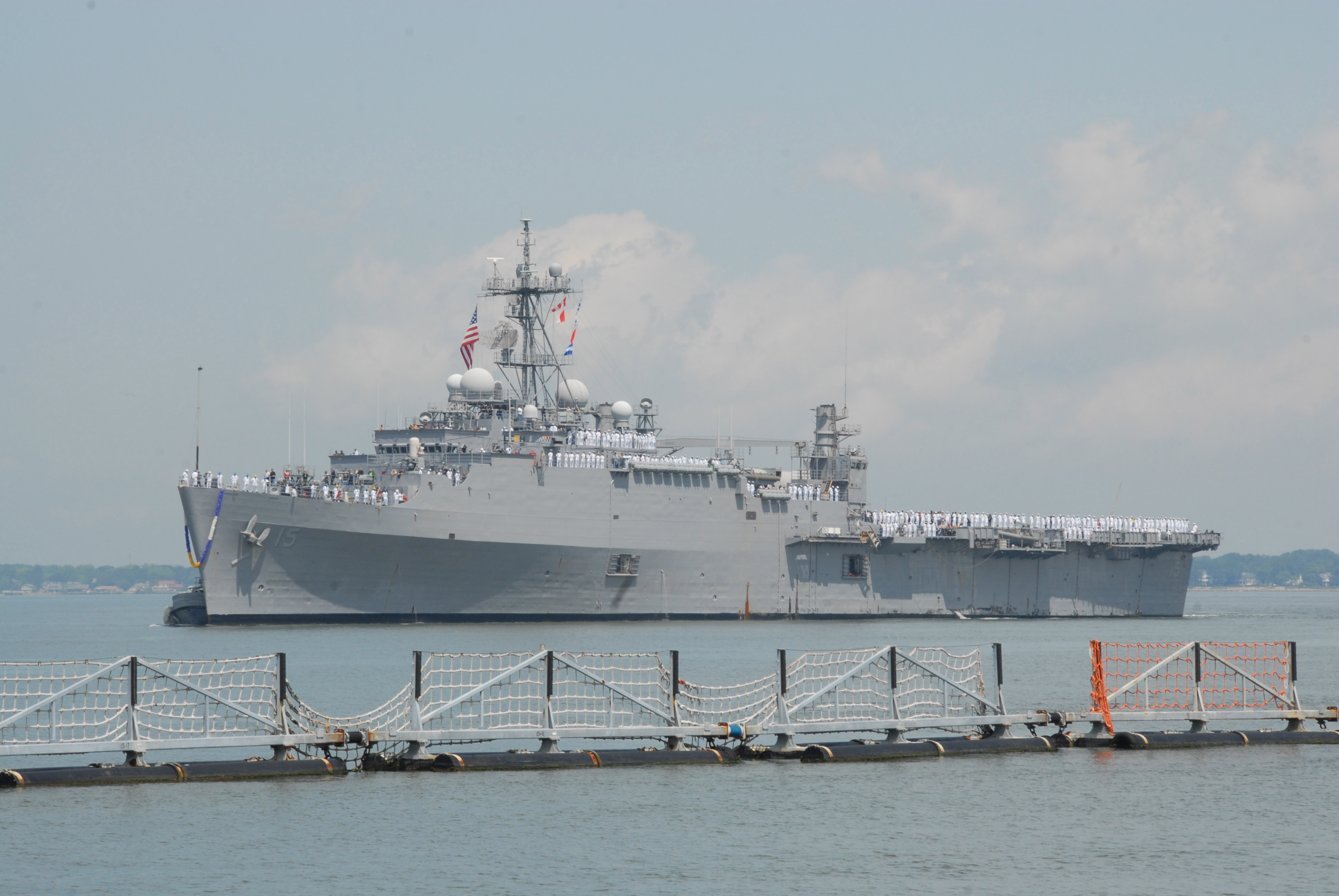 NORFOLK (May 16, 2011) Sailors and Marines man the rails as the amphibious transport dock ship USS Ponce (LPD 15) returns to Naval Station Norfolk after completing an extended deployment in the U.S. 5th and 6th Fleet areas of responsibility. Ponce is part of the Kearsarge Amphibious Ready Group and deployed with the embarked 26th Marine Expeditionary Unit (26th MEU). (U.S. Navy photo by Mass Communication Specialist 3rd Class Brian Goodwin/Released)